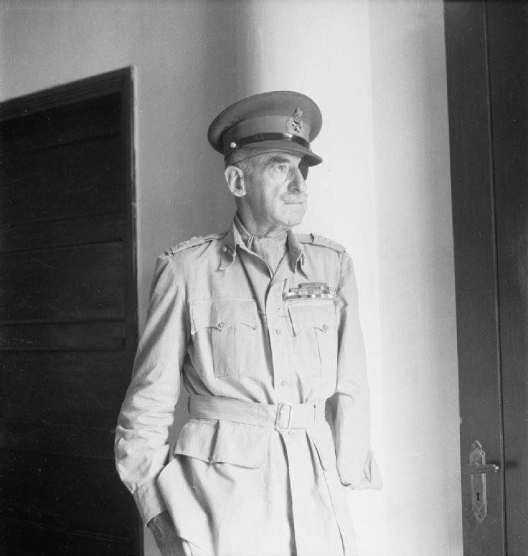 Cecil Beaton Photographs- Political and Military Personalities Political Personalities: Half length portrait of Lieutenant General Adrian Carton de Wiart VC, Mr Churchill's special representative in Chungking.